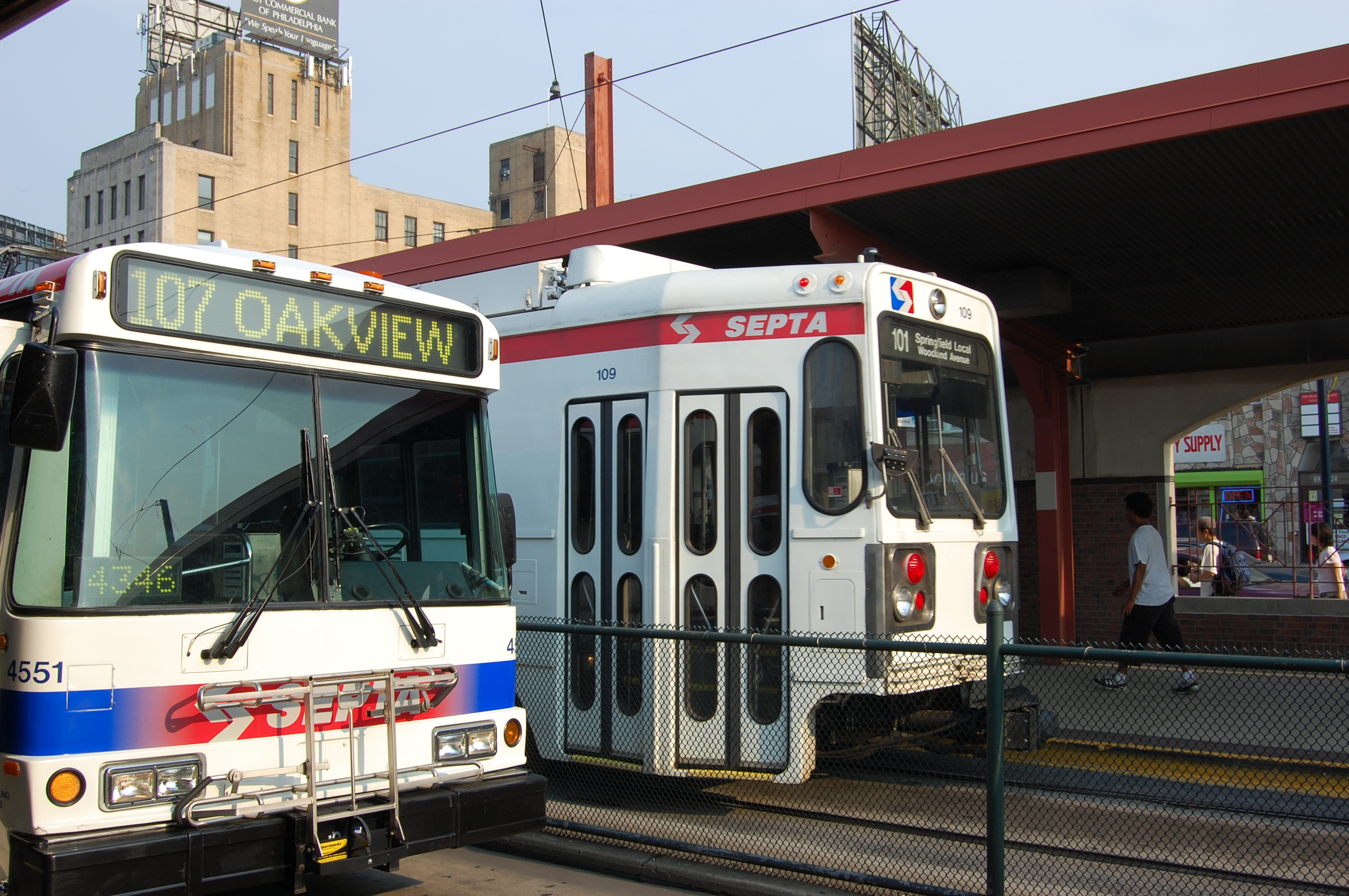 Trolley 101 drops off passengers as Bus 107 picks up passengers at 69th Street Terminal